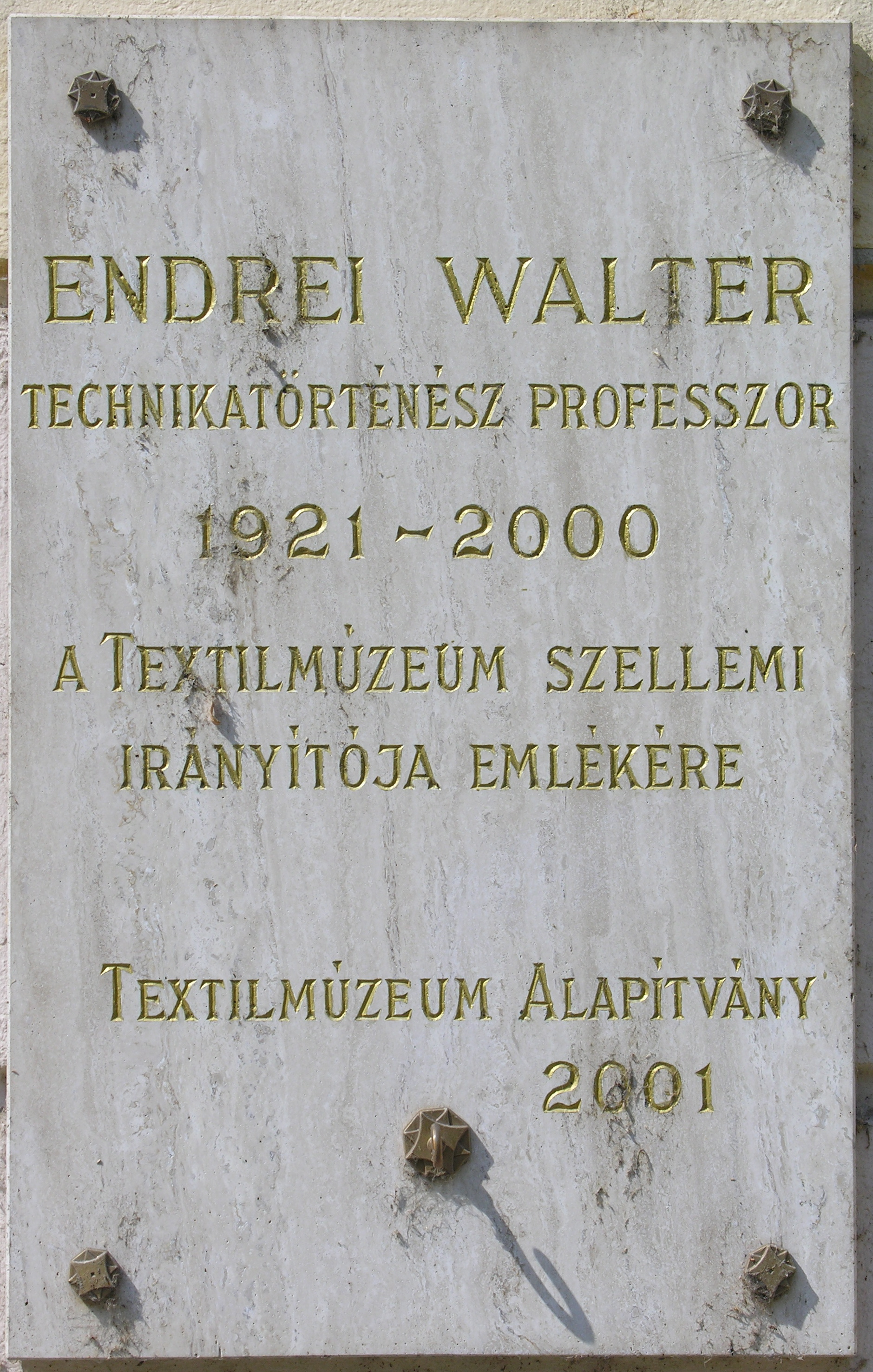 Commemorative plaque of Walter Endrei in Budapest District III, Lajos Street No 138